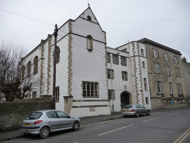 Warminster - Theological College This former nunnery is now part of St Boniface Theological College.